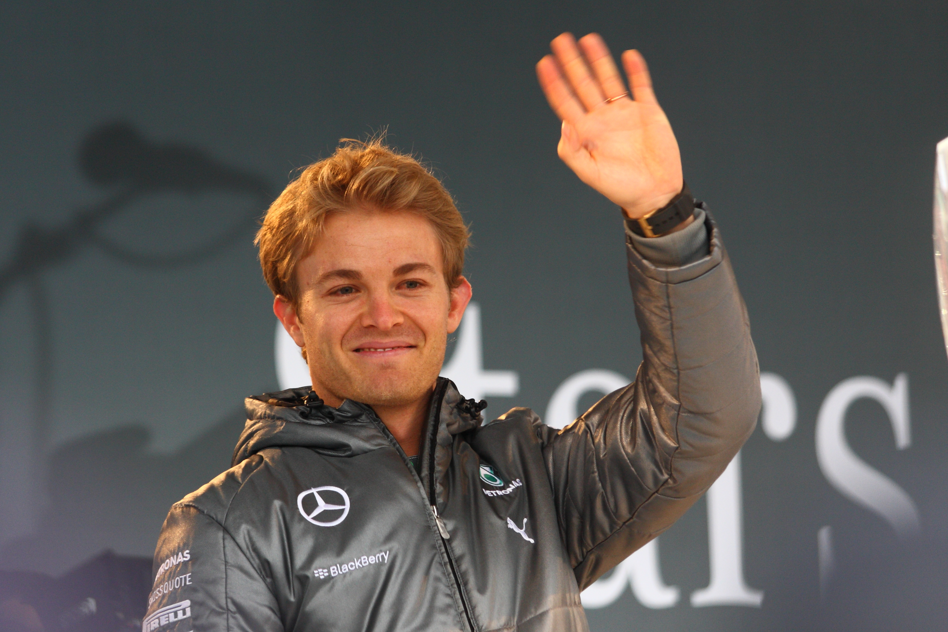 Nico Rosberg at Stars and Cars 2014